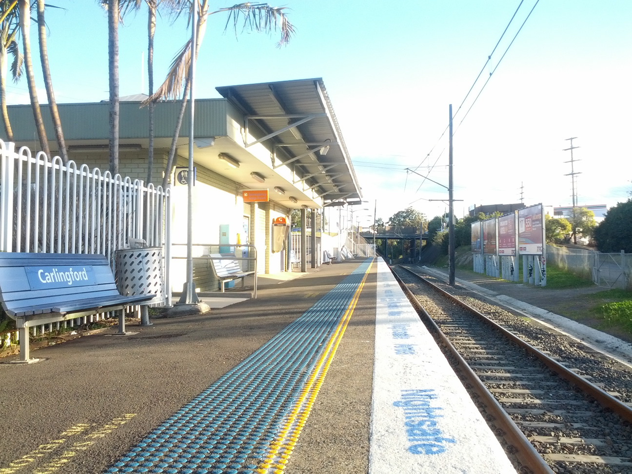 Carlingford Railway Station, terminus of CityRail's Carlingford Line, Sydney NSW.